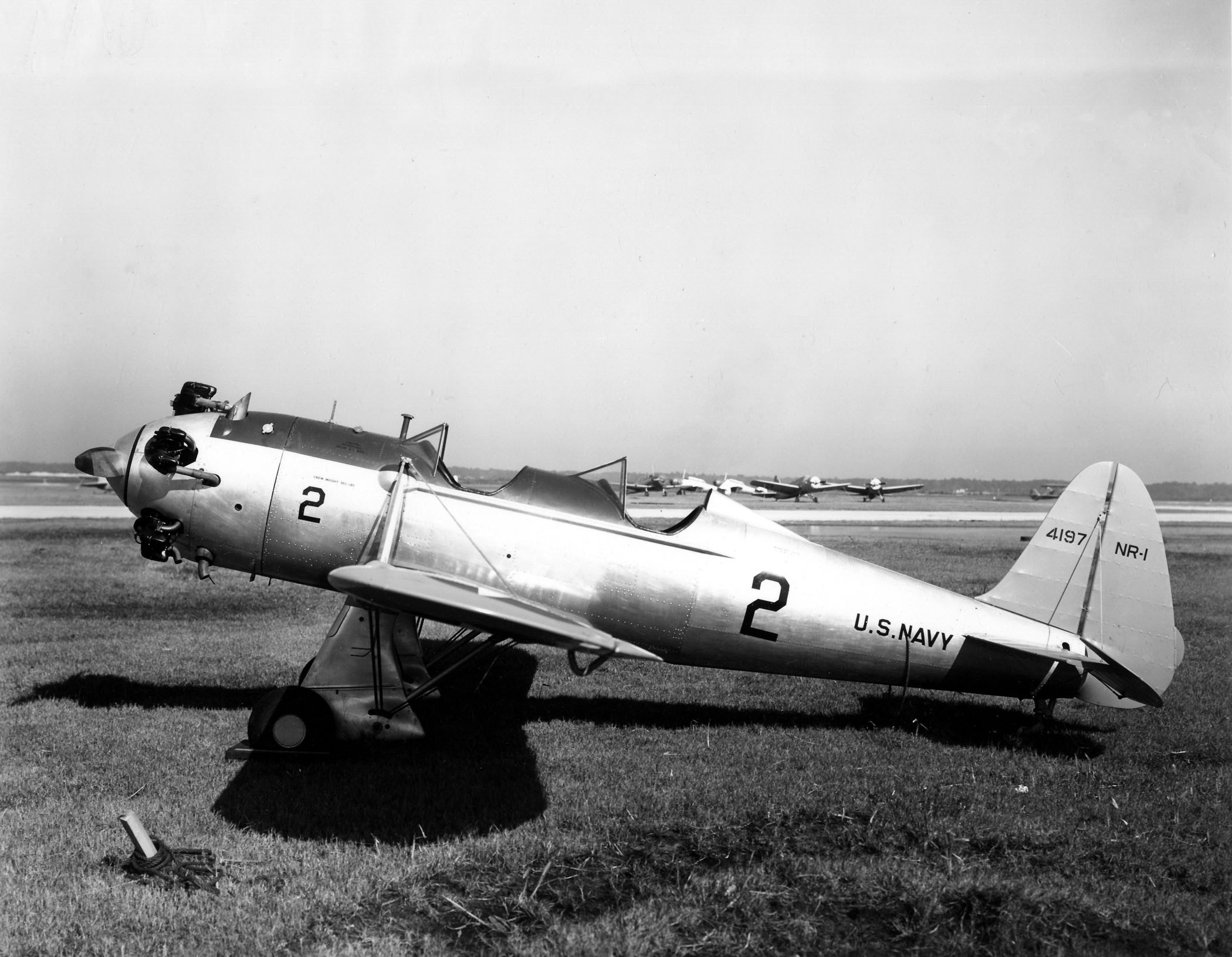 A U.S. Navy Ryan NR-1 training plane (BuNo 4197) at the Naval Air Station Jacksonville, Florida (USA), 1942. Original caption: "A side view of the NR-1 Ryan. The aircraft was used at the station from March 1941 until late 1942. There were 100 aircraft assigned to NAS Jacksonville and they were used for primary flight training. Being under-powered, they were known as the "Flying Washing Machines" by the early students."